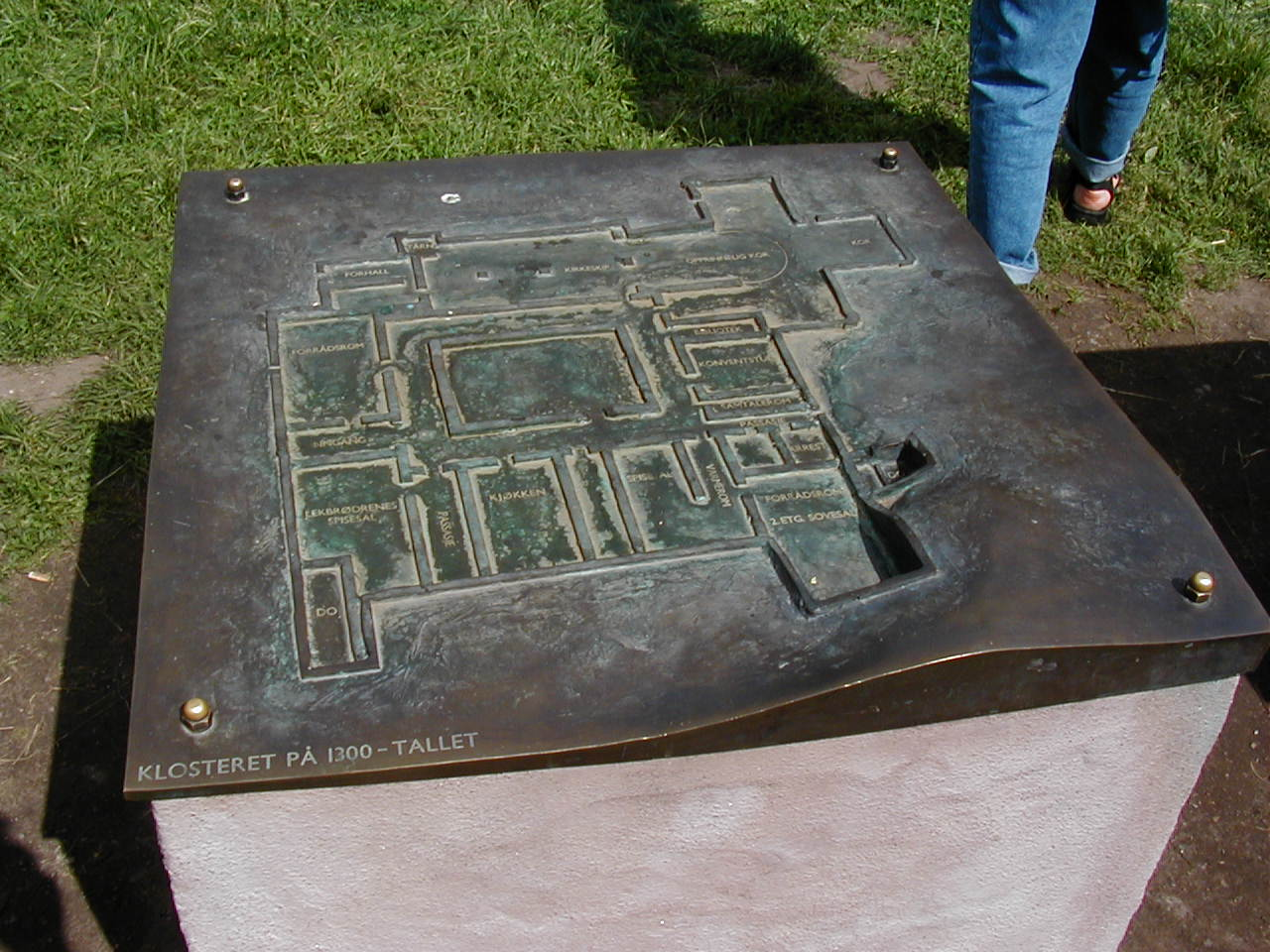 Reconstituted drawing of abbey/Plan reconstitué du monastère